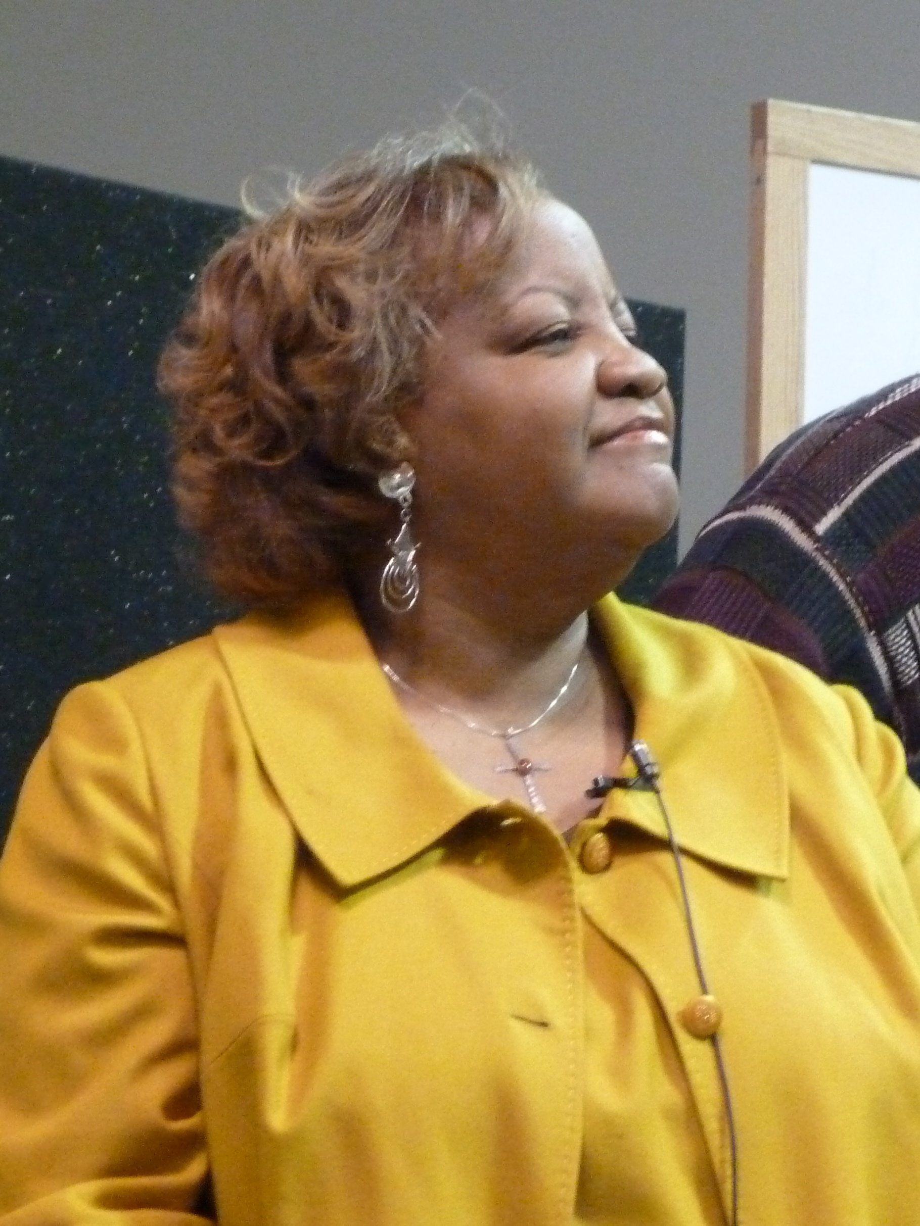 Actress and activist Elisabeth Omilami speaking at the ELCA college of developers conference, Atlanta, Georgia